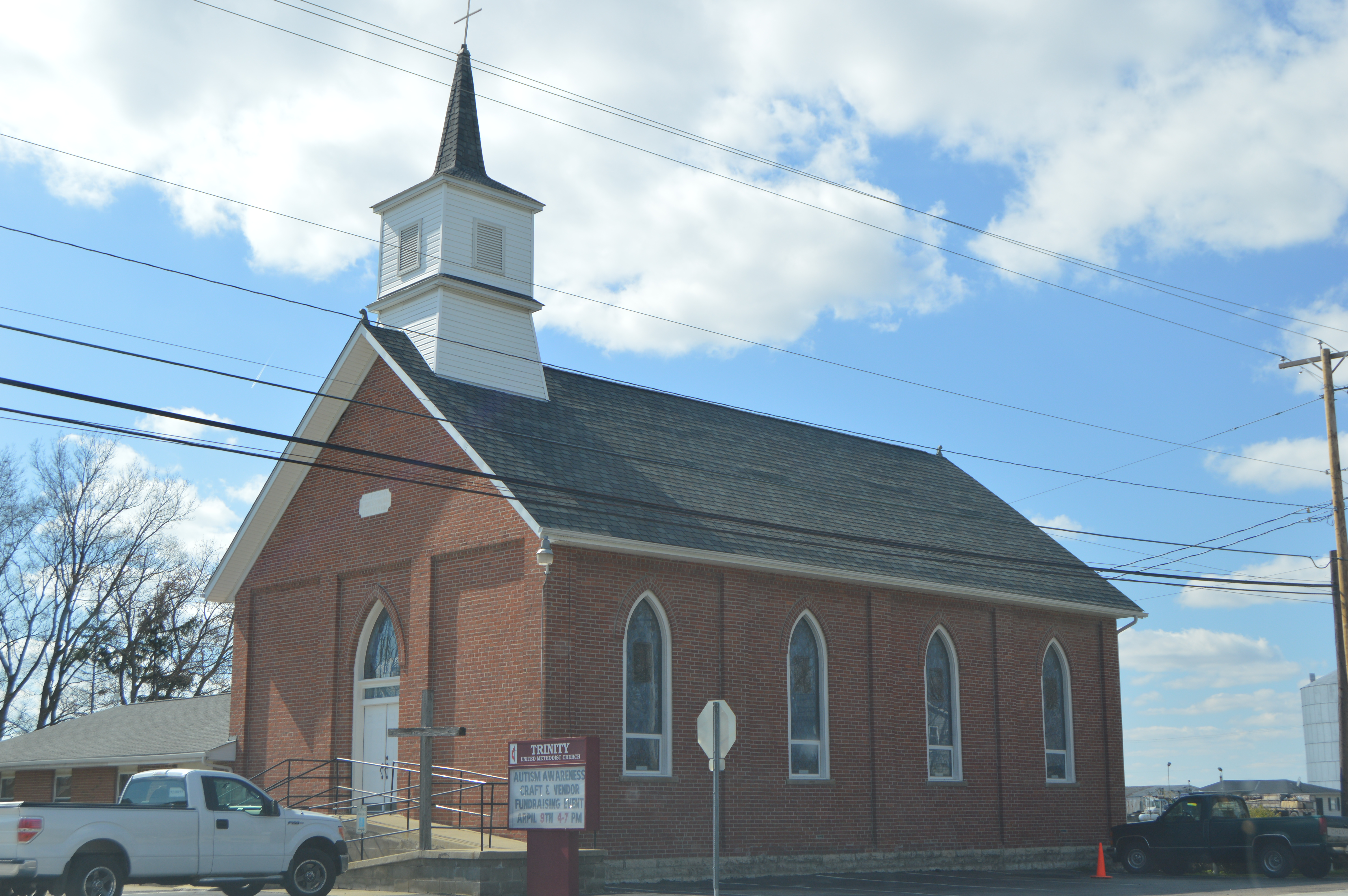 Front and eastern side of Trinity United Methodist Church, located at 8530 Lilly Chapel Georgesville Road at Lilly Chapel in Fairfield Township, Madison County, Ohio, United States. It was built in 1887.